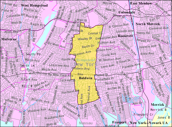 U.S. Census 2000 reference map for Baldwin